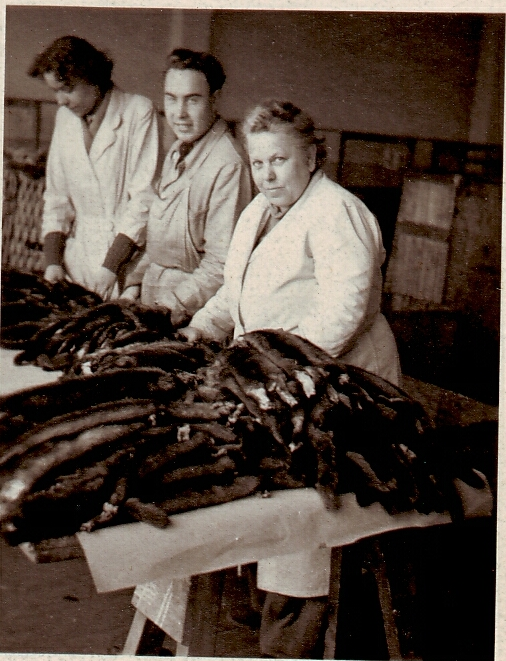 Impressions of a fur-skin grader at VEAB-Leipzig, DDR